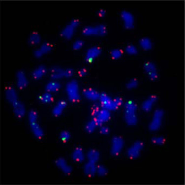 Metaphase spread of HCT116 cells stained for γ‐H2AX (green) and telomeric DNA (red)